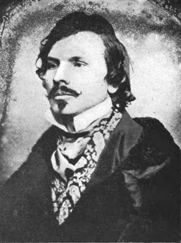 Portrait of Thomas Mayne Reid, circa 1850. Published in Reid, Elizabeth Hyde. Captain Mayne Reid: His Life And Adventures. London: Greening, 1900, Frontispiece